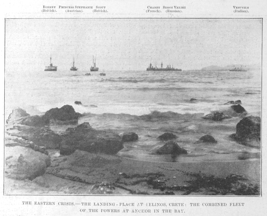 Ships of the International Squadron anchored off Selino Kastelli, Crete, while supporting an expedition to Kandanos between 5 and 9 Match 1897. Left to right: British battleship HMS Rodney, Austro-Hungarian ironclad SMS Kronprinzessin Erzherzogin Stephanie, British torpedo cruiser HMS Scout, French armored cruiser Chanzy, Russian battleship Sissoi Veliky, Italian protected cruiser Vesuvio